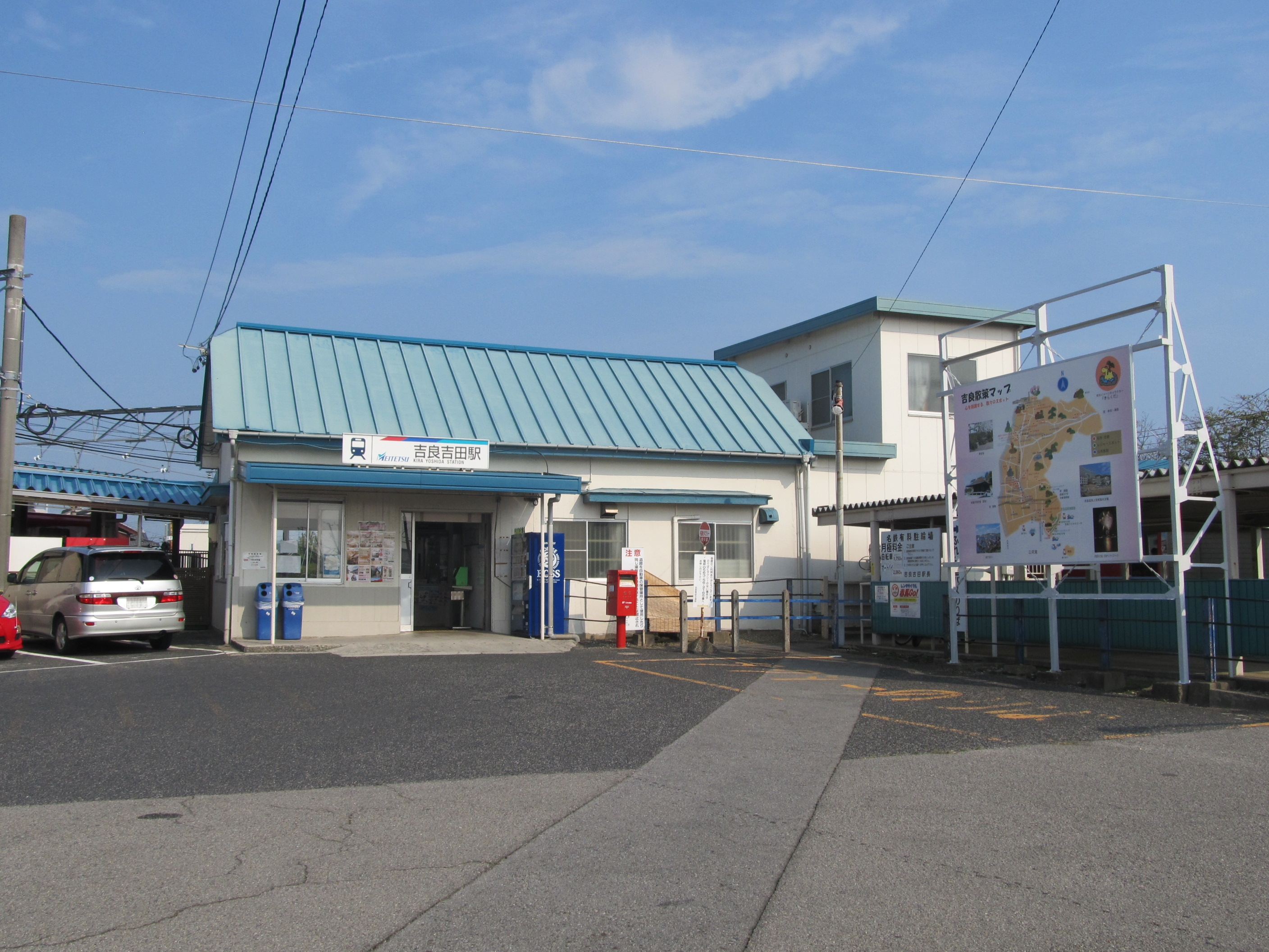 Nagoya Railroad Nishio Line,Gamagōri Line and Mikawa Line (Abandoned) Kira Yoshida Station Building